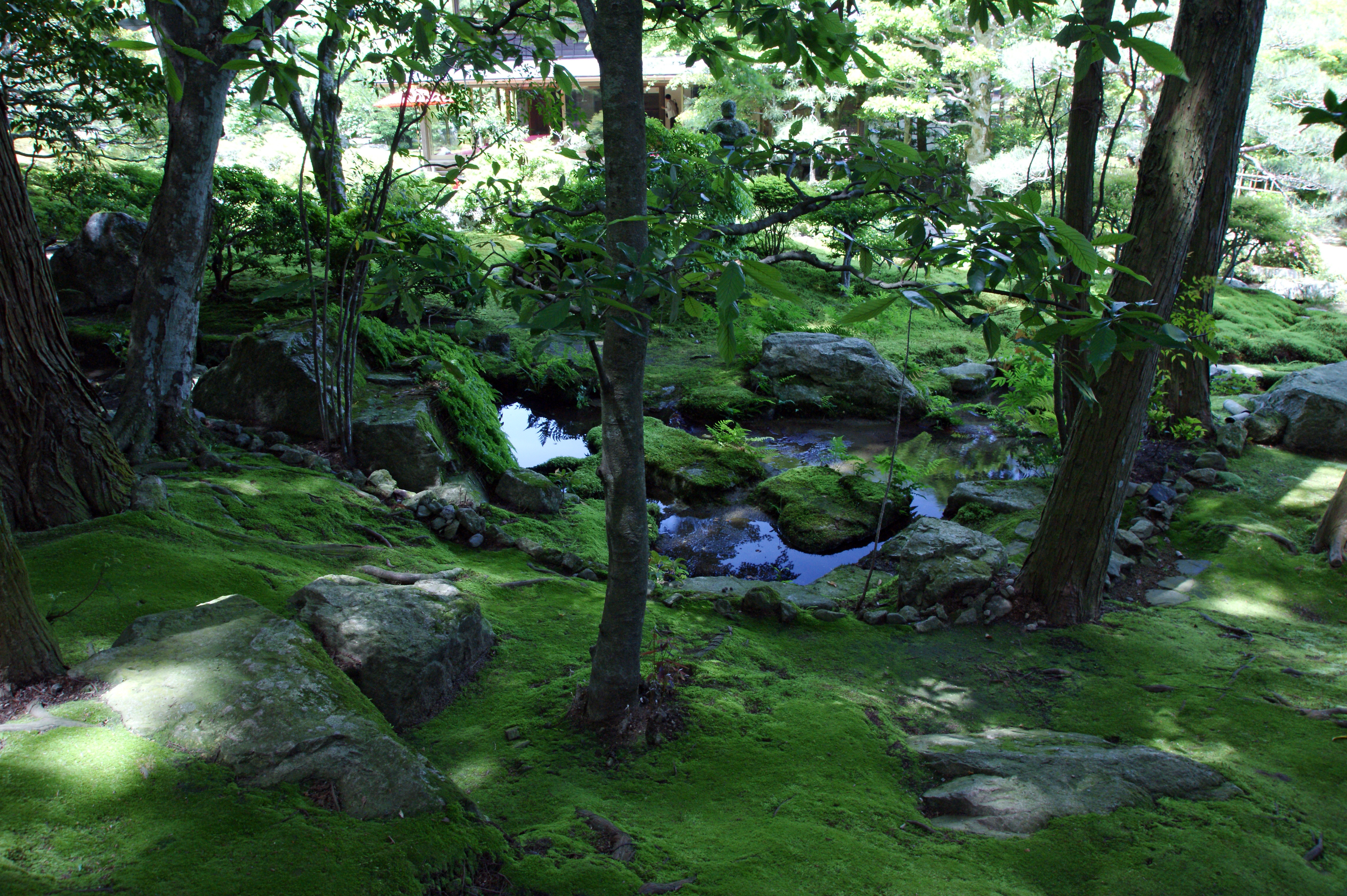 Old Chikurinin in Sakamoto, Otsu, Shiga prefecture, Japan